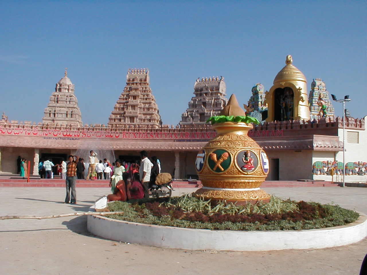 Surendrapuri Temple photos